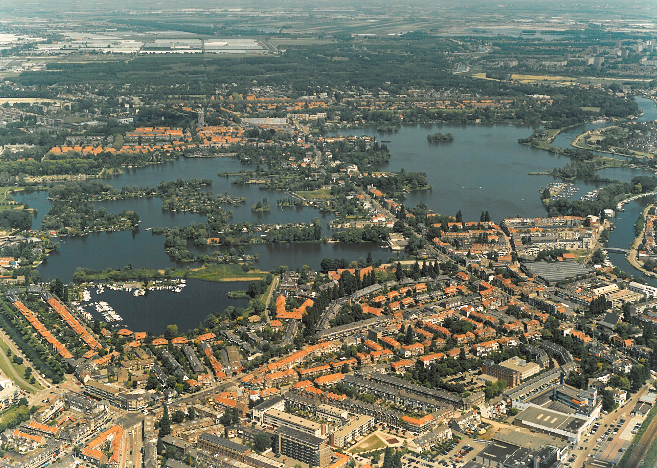 Kleiweg Quartier Hillegersberg Rotterdam Bergse Achterplas